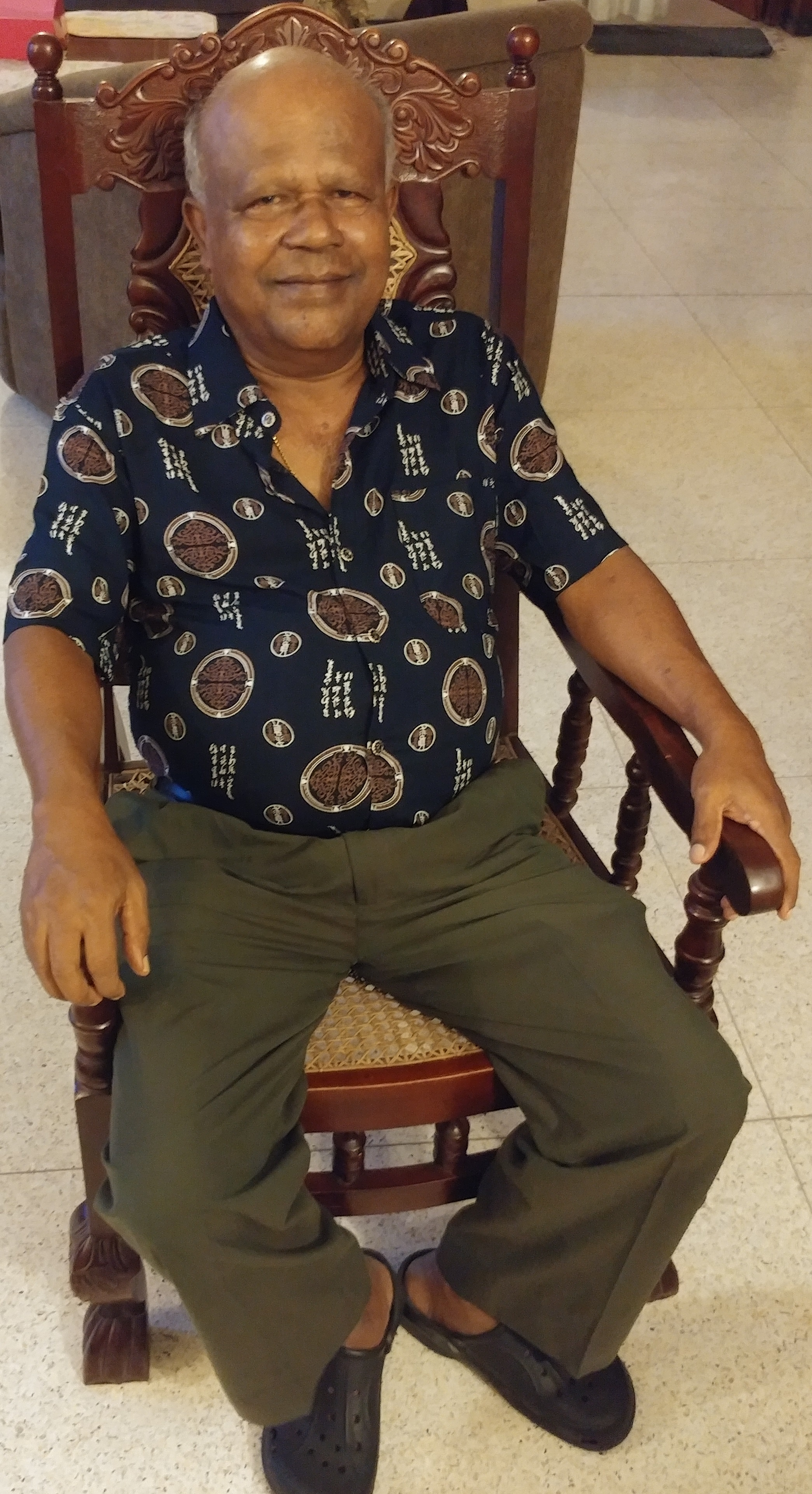 Camillus Perera in Meegamuwa